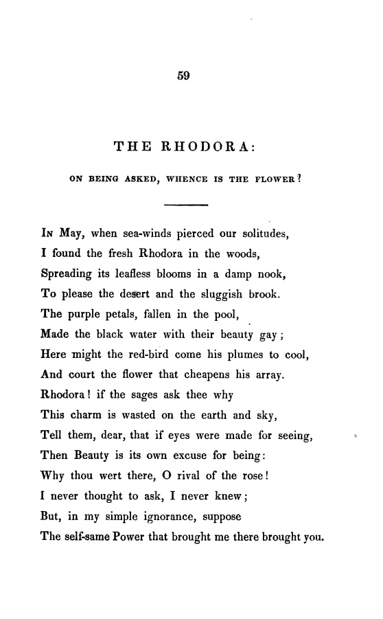 A page from Poems (1847) by American writer Ralph Waldo Emerson (1803-1882). Features the poem "The Rhodora" in its entirety.